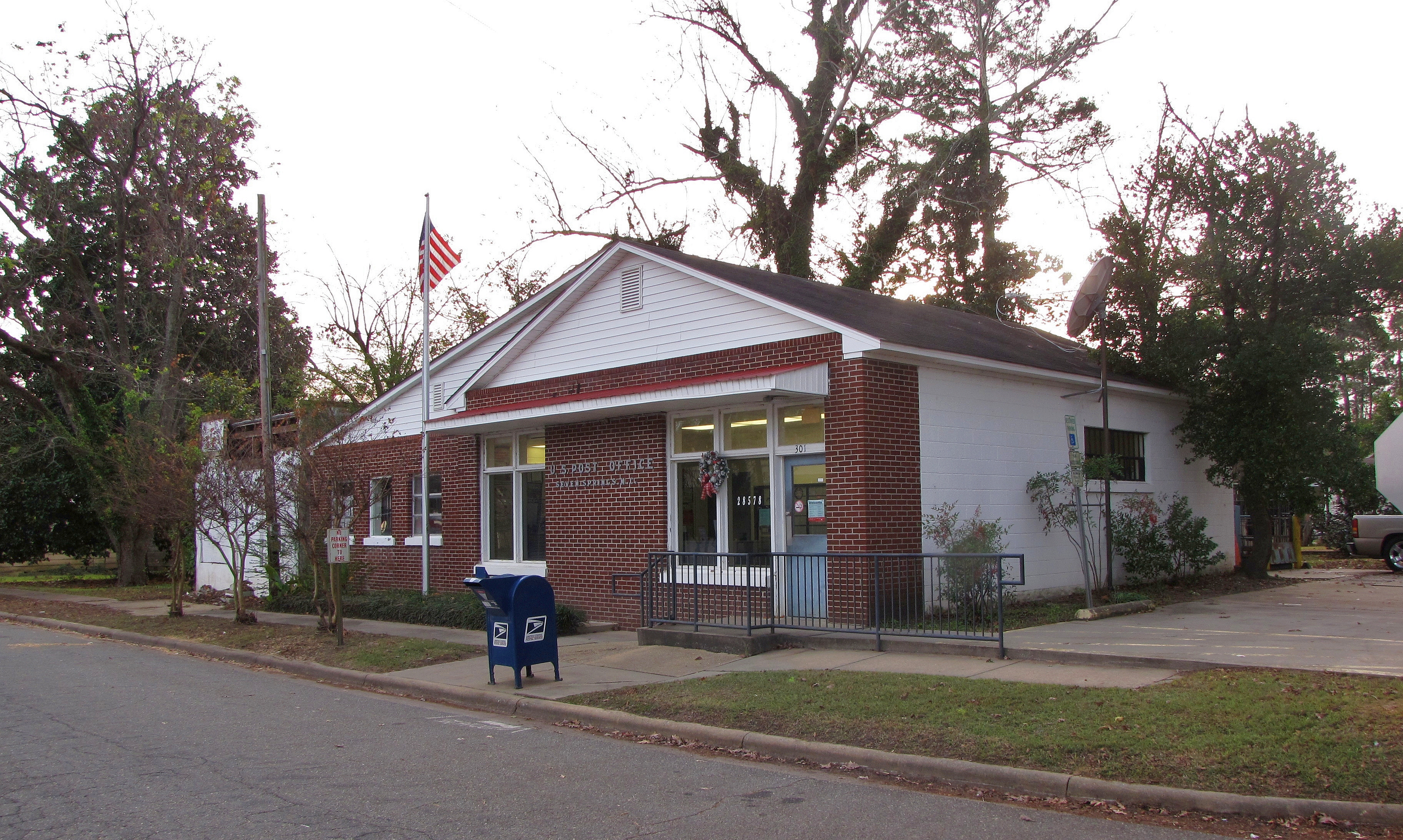 Post Office, Seven Springs, North Carolina.